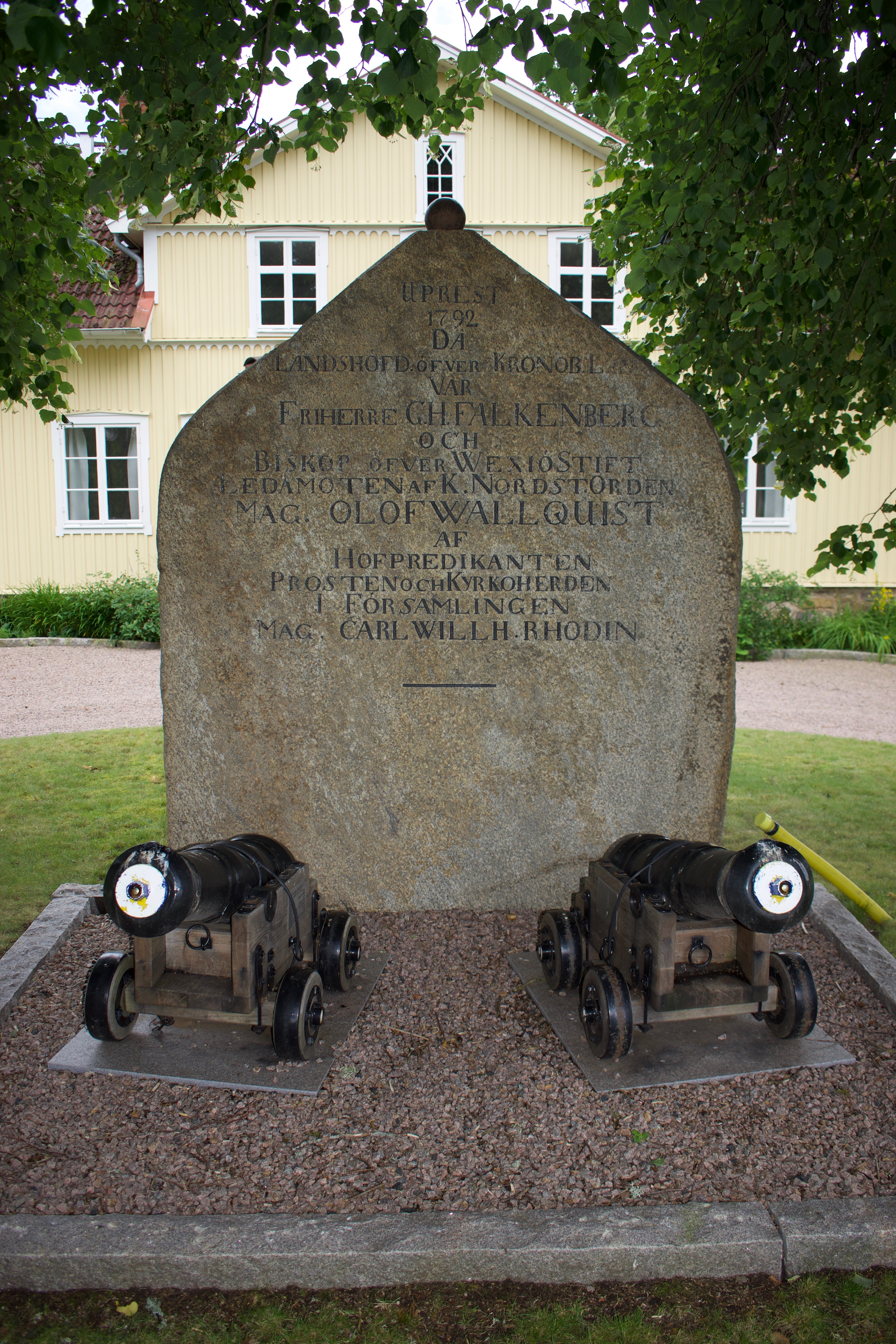 Memorial stone at Ulfsbäck rectory (reverse), commemorating the meeting between Gustavus Adolphus of Sweden and Christian IV of Denmark in 1629.